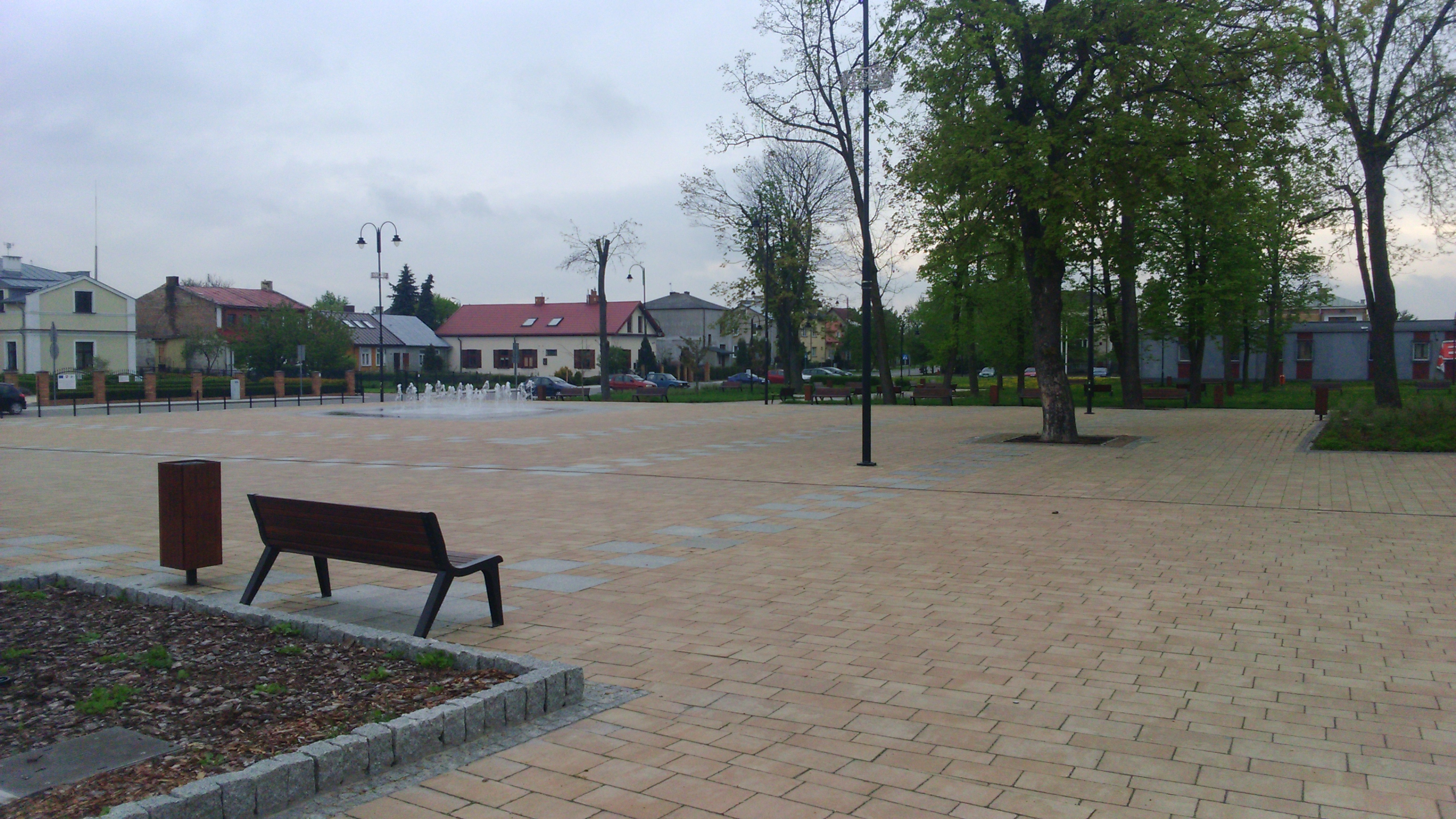 Main square in Łęczna